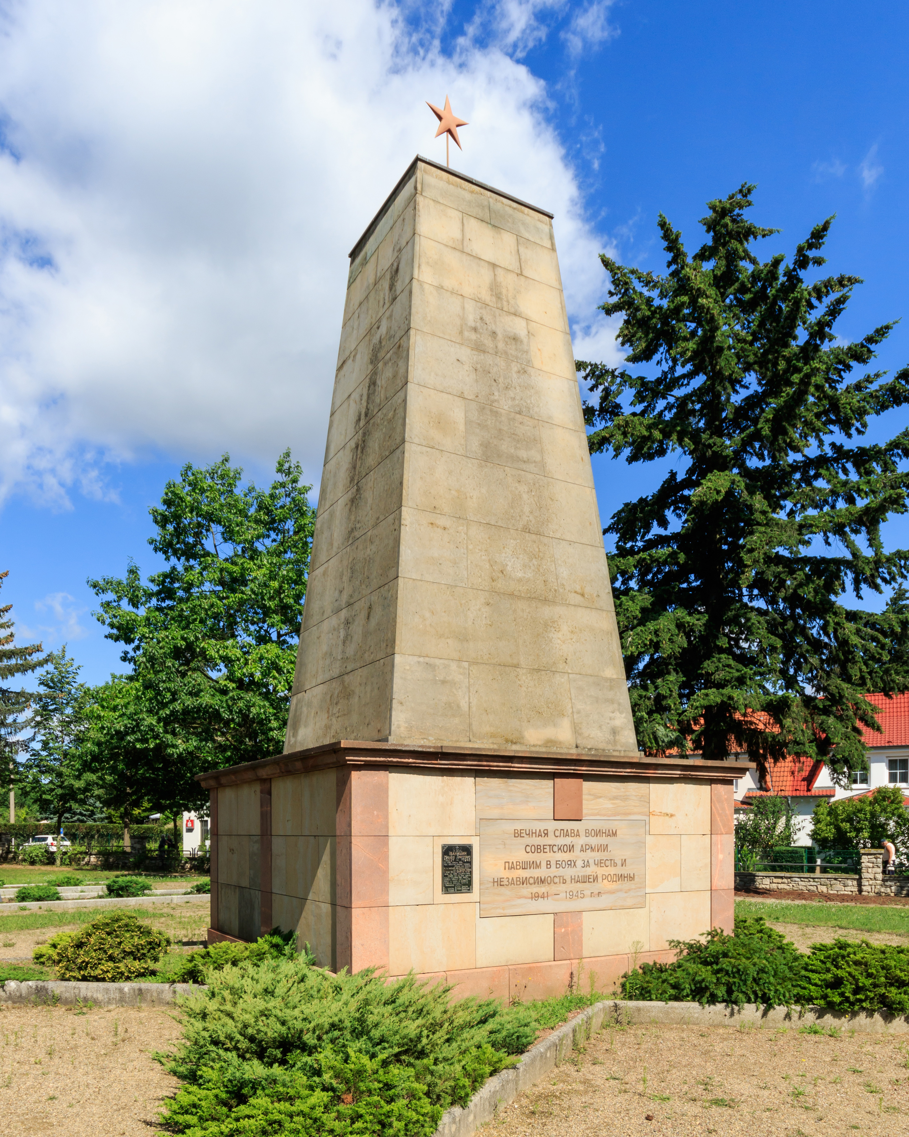 Soviet WWII memorial in Waltersdorf near Berlin